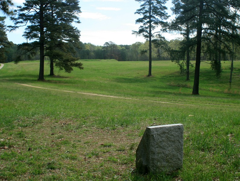 Marker on starting point of Gordon's attack to Fort Stedman